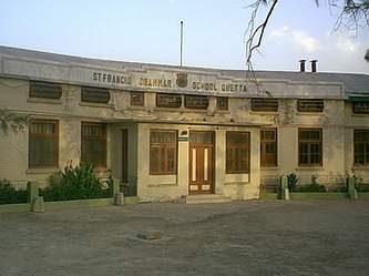 St Francis Grammar School. Photo: Dr Irfan Ahmed Khan